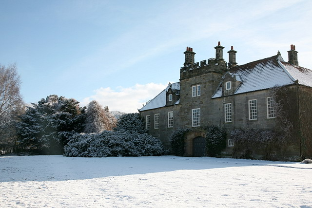 Ingleby Manor The history of the manorial lands can be traced back to the early 1200s but the present house was probably built in the early 1500s.